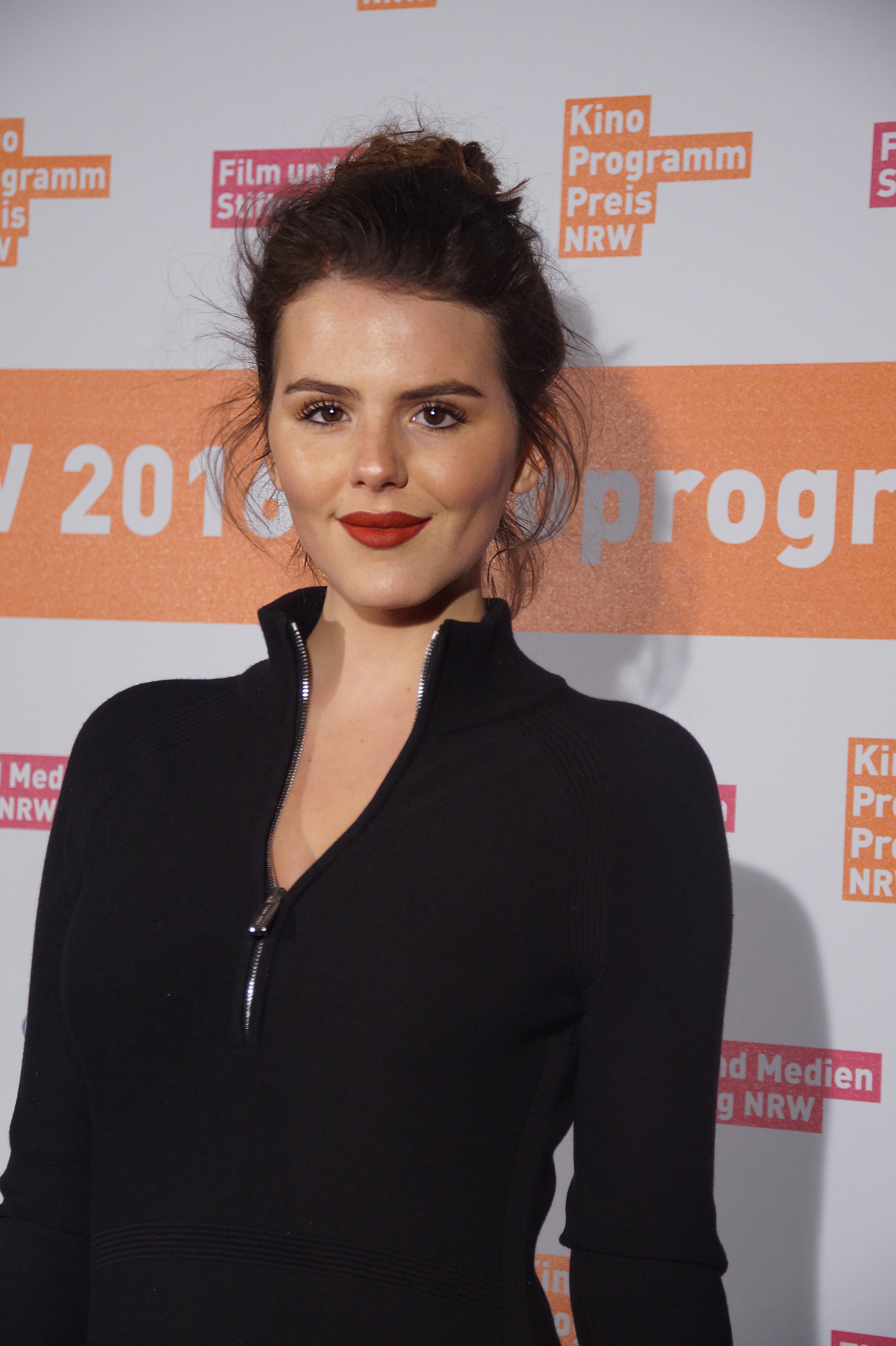 Ruby O. Fee beim NRW Kinoprogrammpreis, November 2016, Köln.